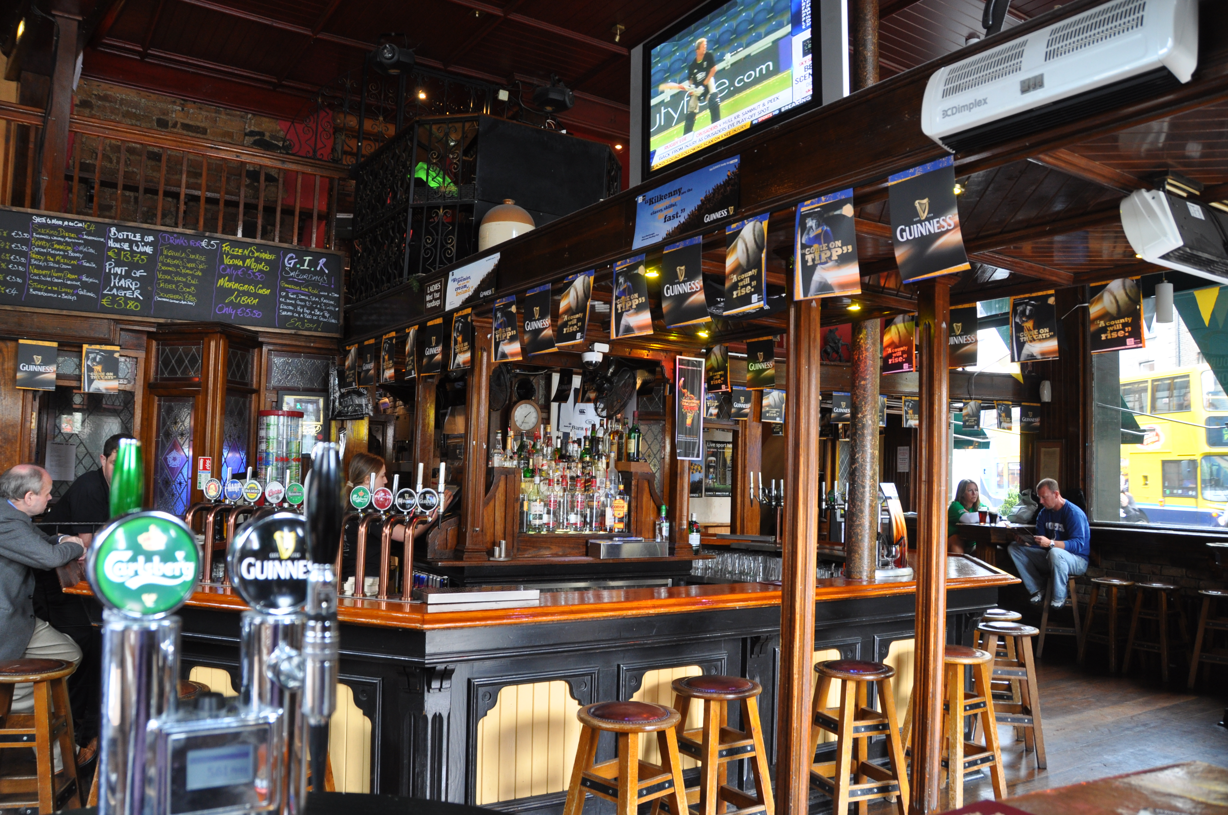 Inside The Bleeding Horse pub, Dublin city.